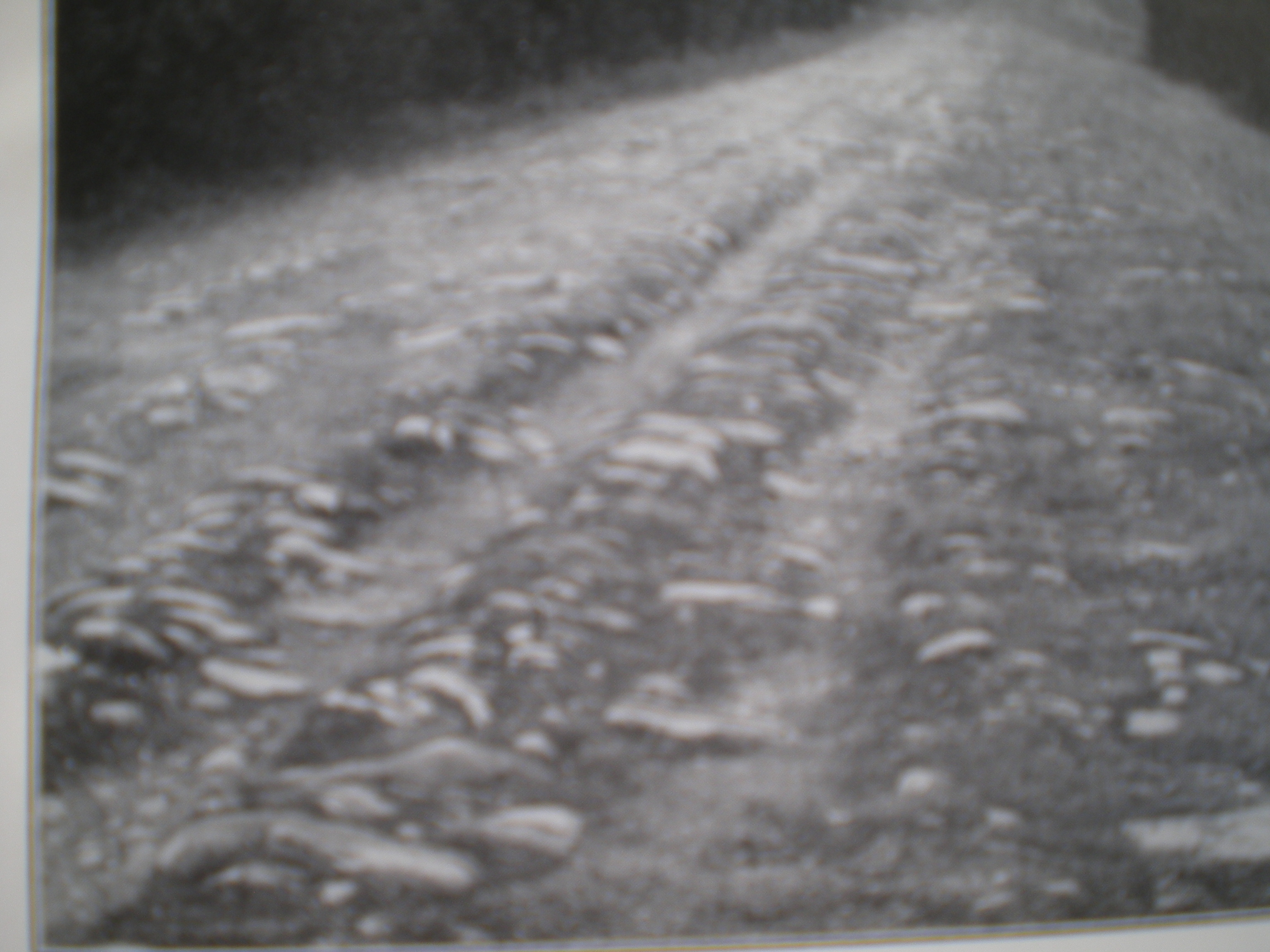 he steep section of the old military and commercial road from Buchbach to the "kitchen". Up to 6 m wide with deep wheel tracks. In modern times the state forestry enterprise Thüringen embeds and gravel